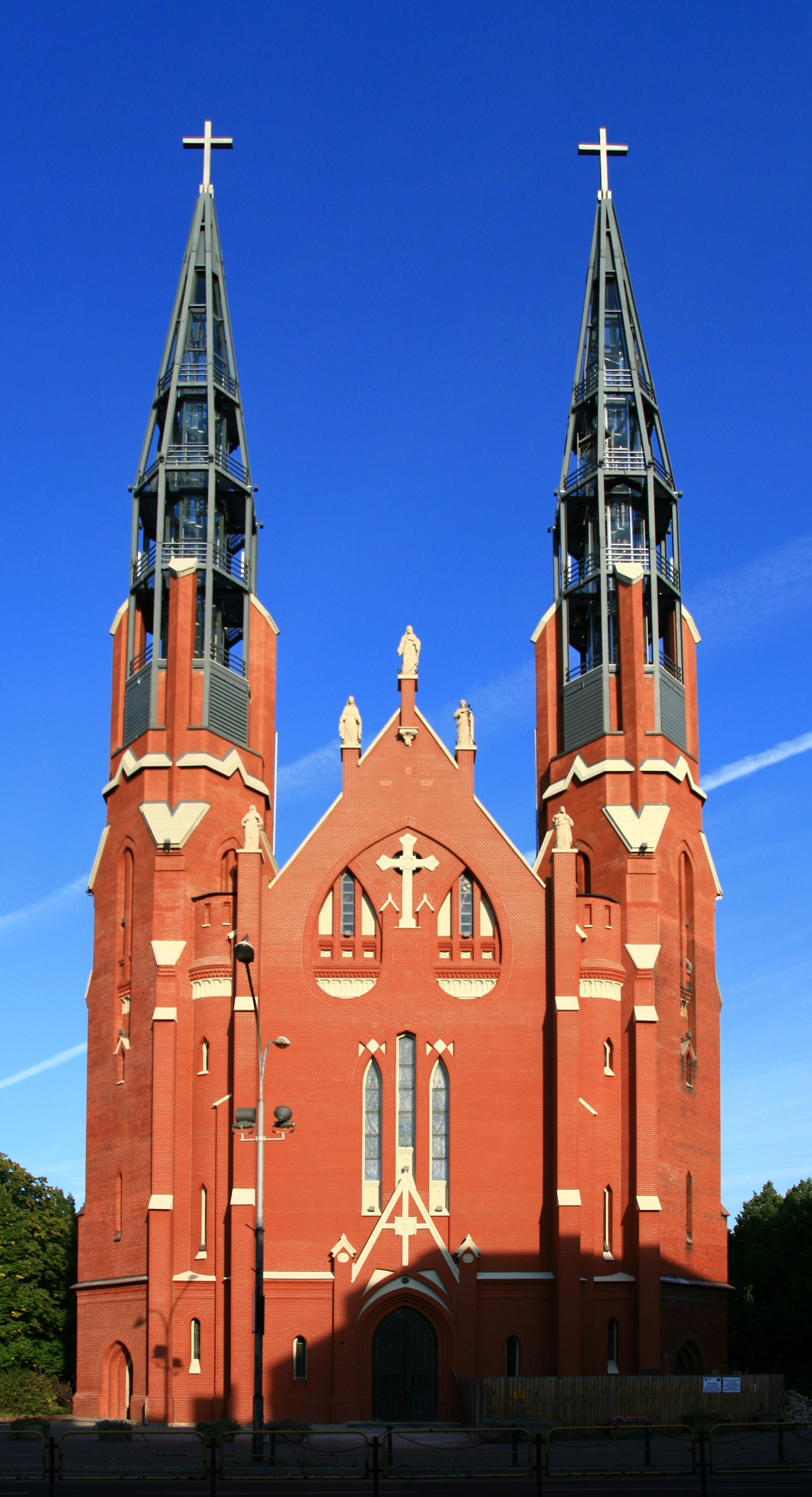 Church in Sosnowiec.